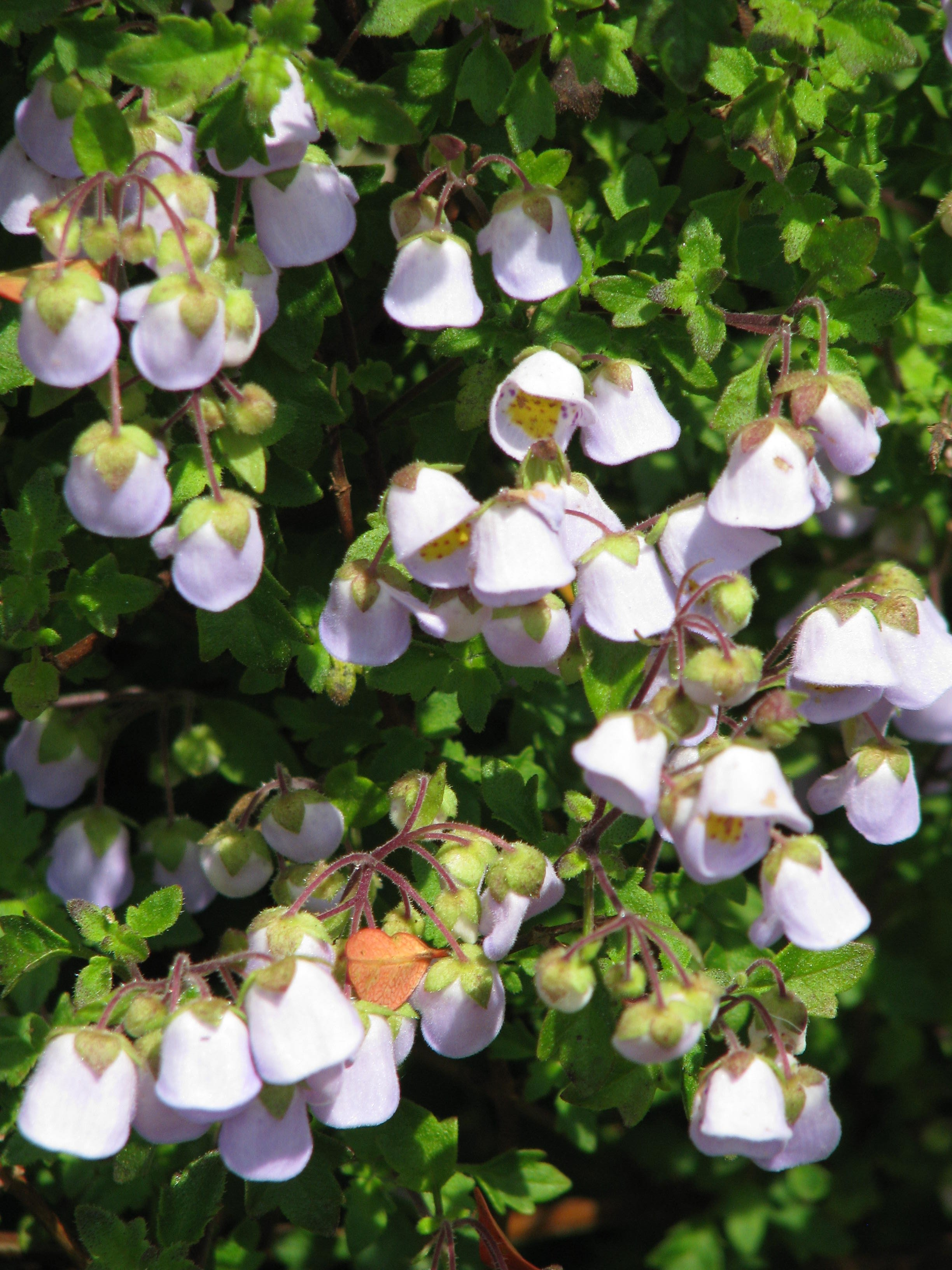 Jovellana violacea